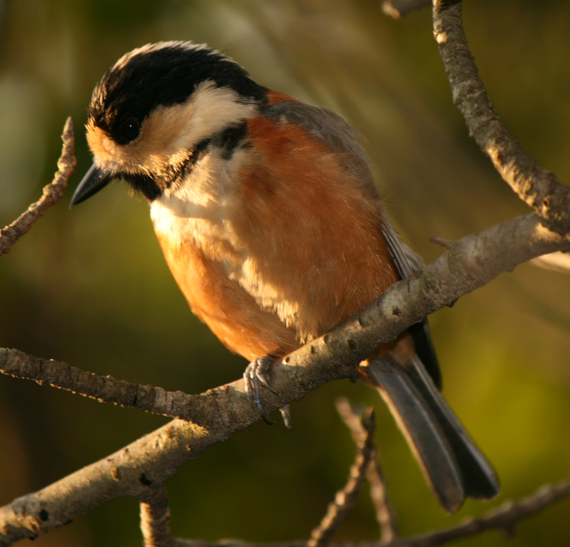 Poecile varius on tree in Mount Miroku, Kasugai, Aichi, Japan